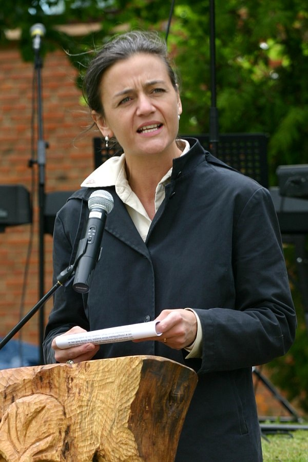 Photo of Margrethe Vestager, Danish politician.